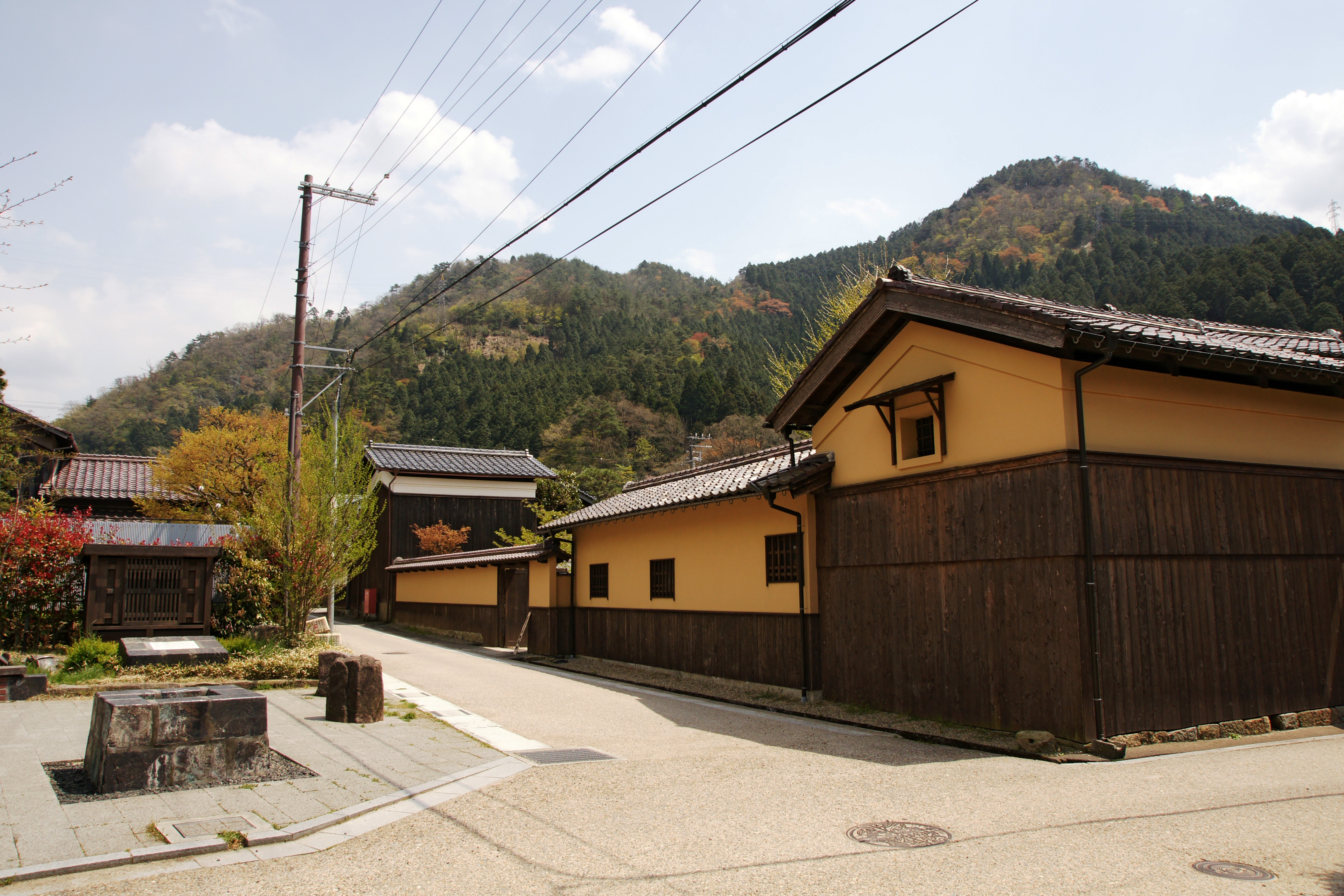 Izutsuya in Kuchiganaya, Ikuno, Asago, Hyogo prefecture, Japan.